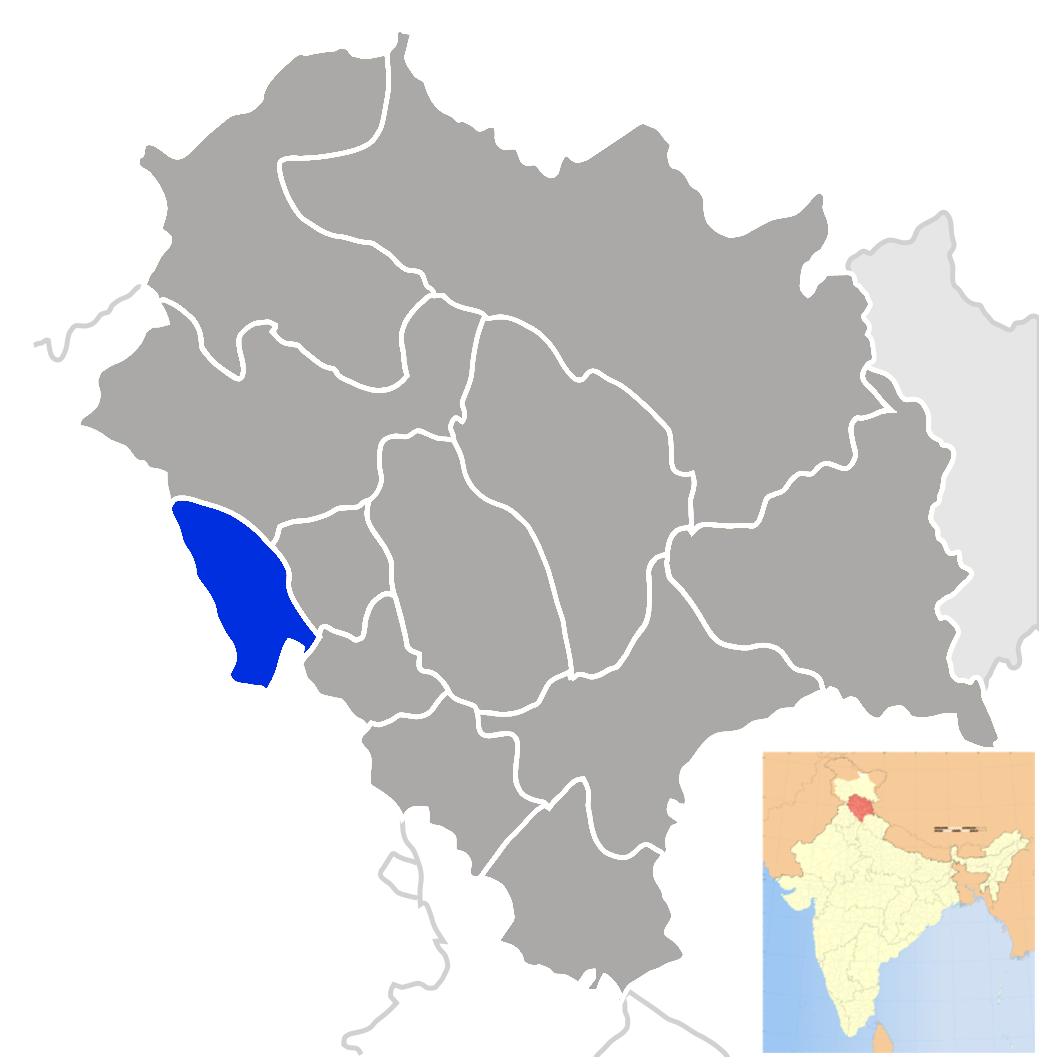 Una district of Himachal Pradesh